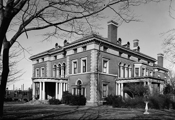 Alonzo Roberson House — 30 Front Street, Binghamton, Broome County, central—southern New York. The Roberson Mansion is now part of the Roberson Museum and Science Center. 1963 image from the HABS—Historic American Buildings Survey of New York, (cropped). This file comes from the Historic American Buildings Survey (HABS), Historic American Engineering Record (HAER) or Historic American Landscapes Survey (HALS). These are programs of the National Park Service established for the purpose of documenting historic places. Records consist of measured drawings, archival photographs, and written reports. When reusing please credit: Library of Congress, Prints & Photographs Division, NY,4-BING,23-1 This tag does not indicate the copyright status of the attached work. A normal copyright tag is still required. See Commons:Licensing. This work is in the public domain in the United States because it is a work prepared by an officer or employee of the United States Government as part of that person’s official duties under the terms of Title 17, Chapter 1, Section 105 of the US Code. Note: This only applies to original works of the Federal Government and not to the work of any individual U.S. state, territory, commonwealth, county, municipality, or any other subdivision. This template also does not apply to postage stamp designs published by the United States Postal Service since 1978. (See § 313.6(C)(1) of Compendium of U.S. Copyright Office Practices). It also does not apply to certain US coins; see The US Mint Terms of Use. This file has been identified as being free of known restrictions under copyright law, including all related and neighboring rights. Object location42° 05′ 39″ N, 75° 55′ 08″ W